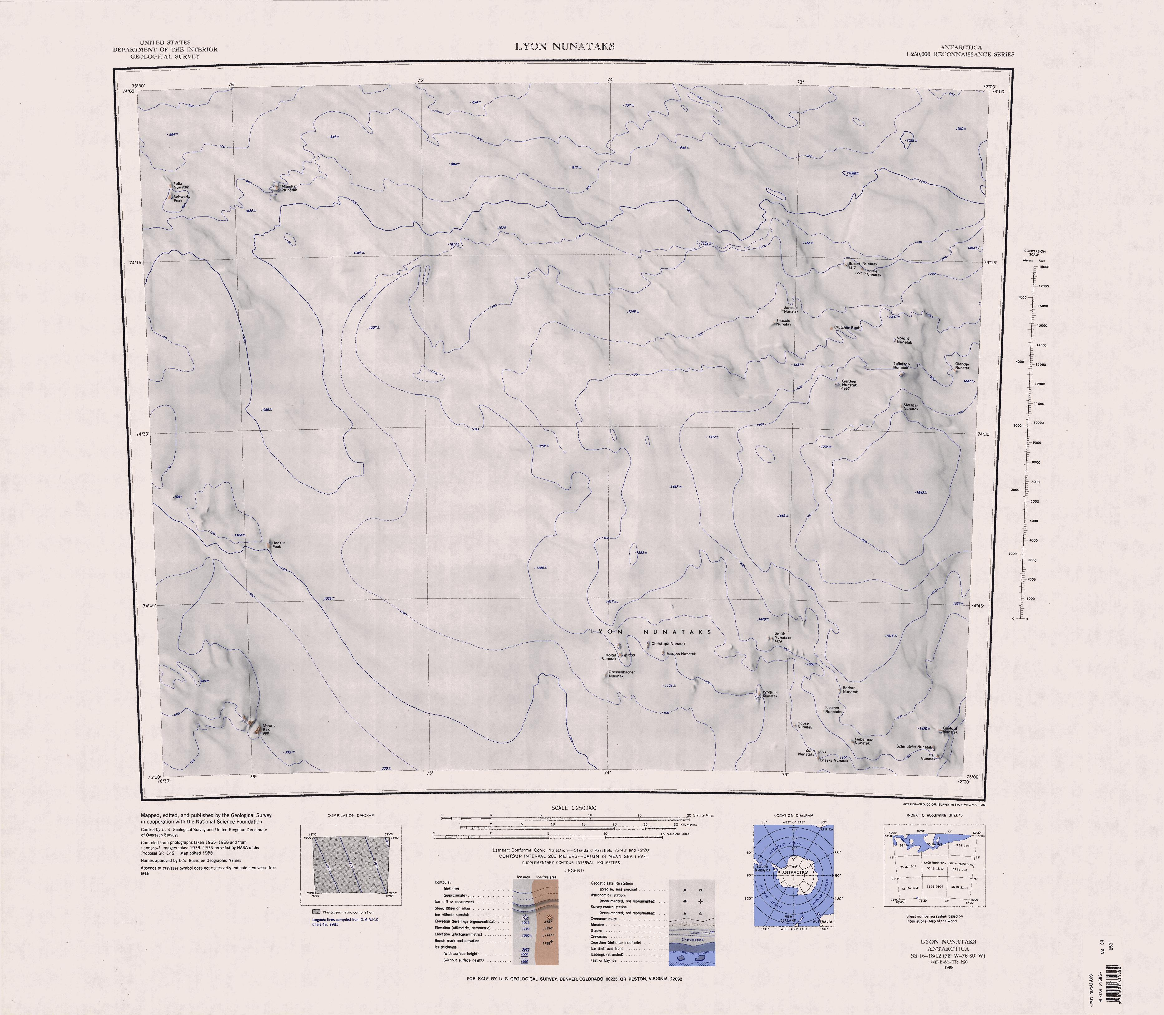 1:250,000-scale topographic reconnaissance map of the Lyon Nunataks area from 72°-76°30'W to 74°-75°S in Antarctica. Mapped, edited and published by the U.S. Geological Survey in cooperation with the National Science Foundation.